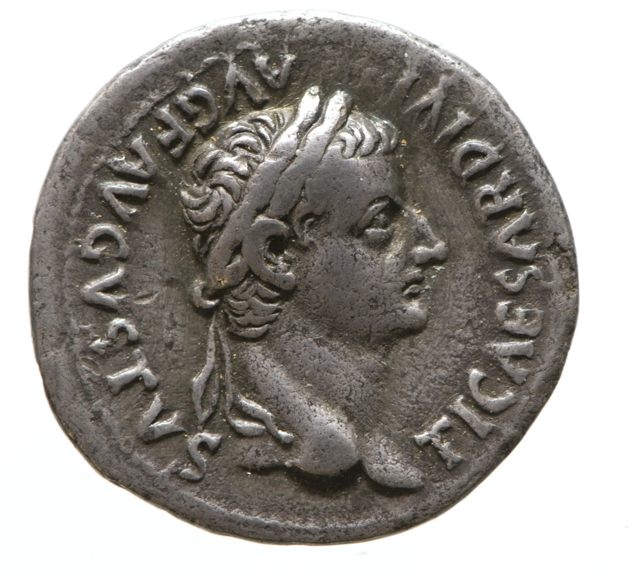 Obverse (front) of a denarius of Tiberius head facing right laureate